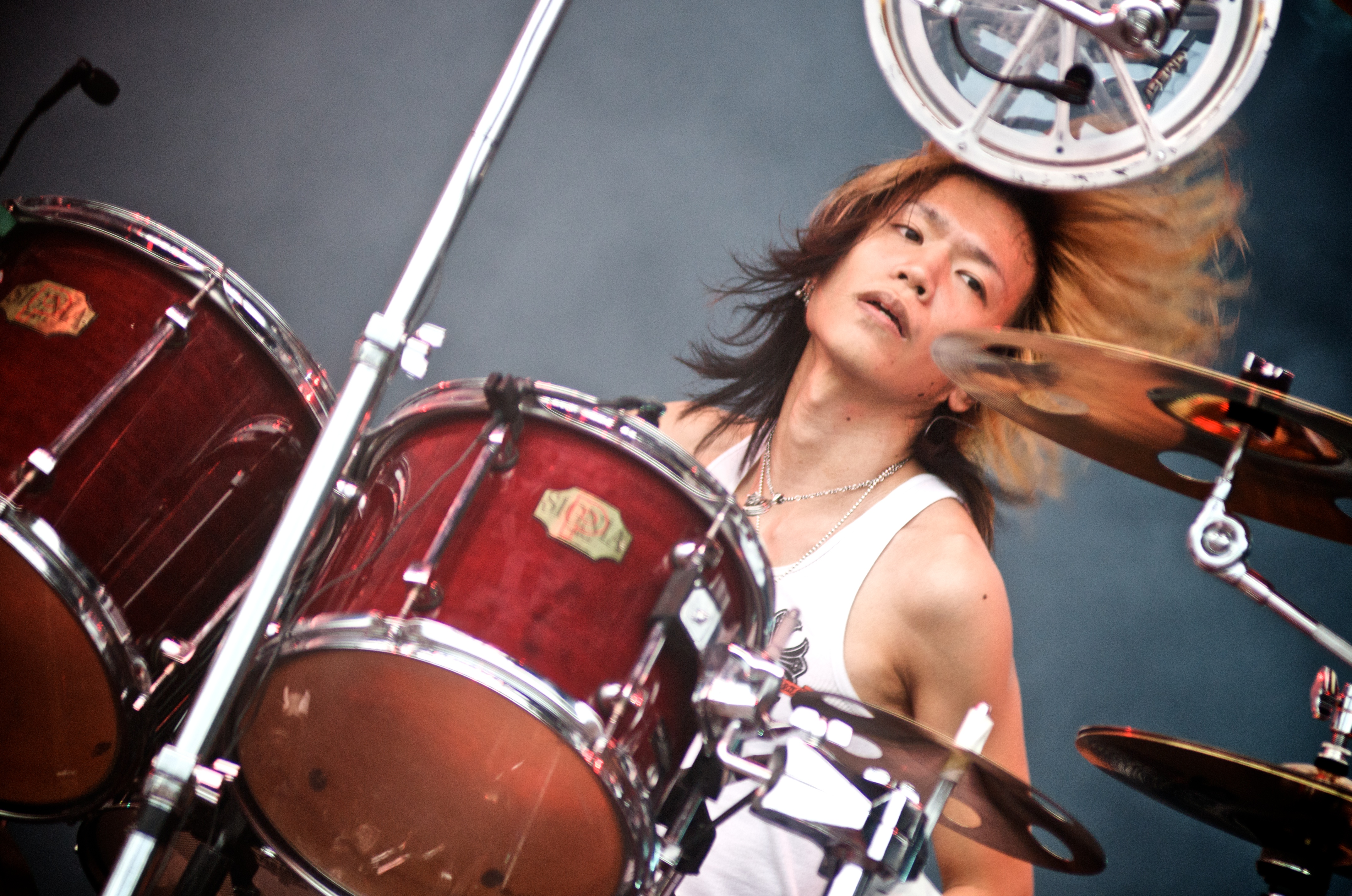 Dir En Grey in Maquinária Festival, occurred in November 8 2009 at São Paulo, Brazil.